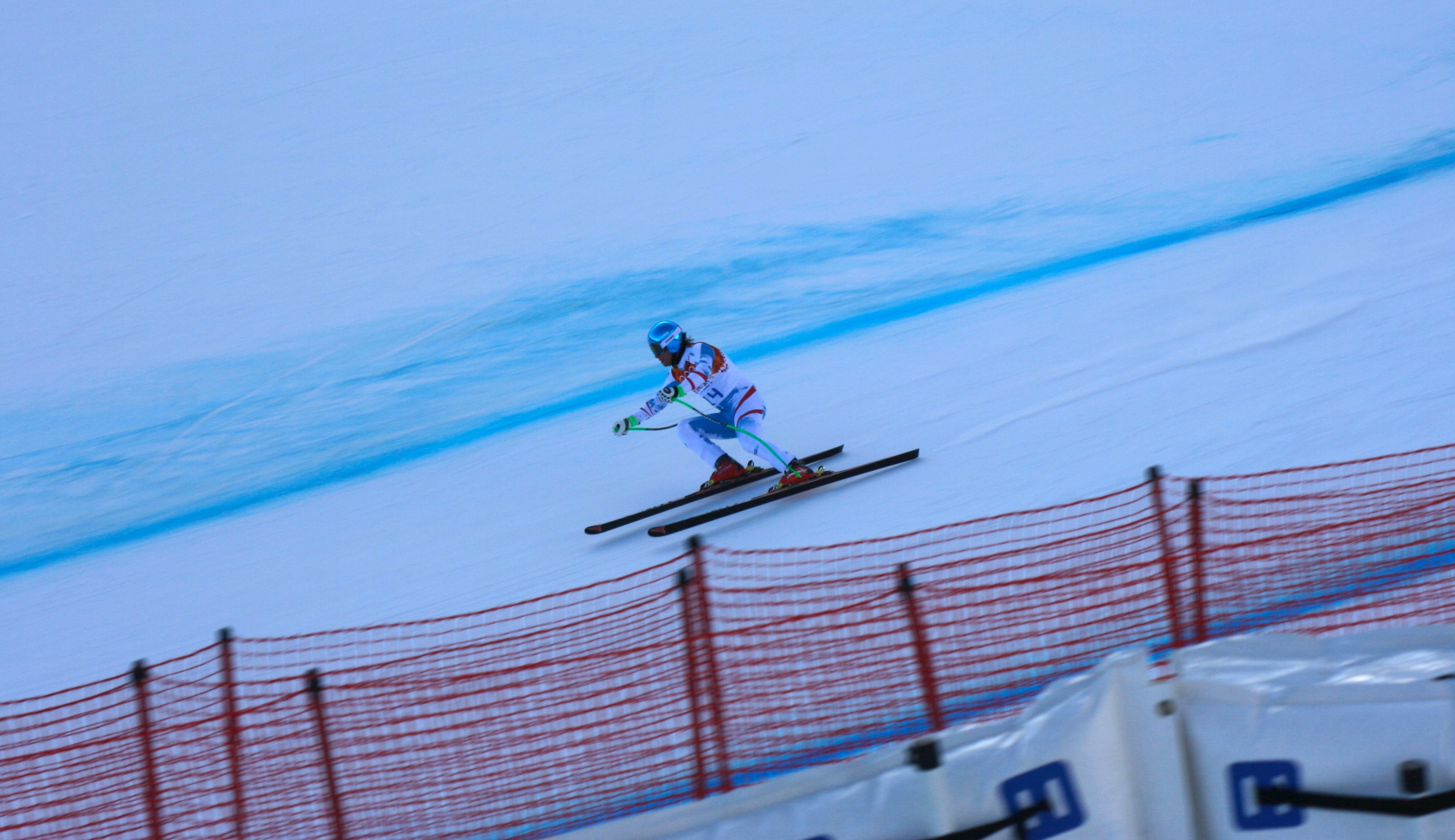 The Olympic champion of the Sochi Olympic Games 2014 in downhill Matthias Mayer on the route of downhill racing in a Super Combined.